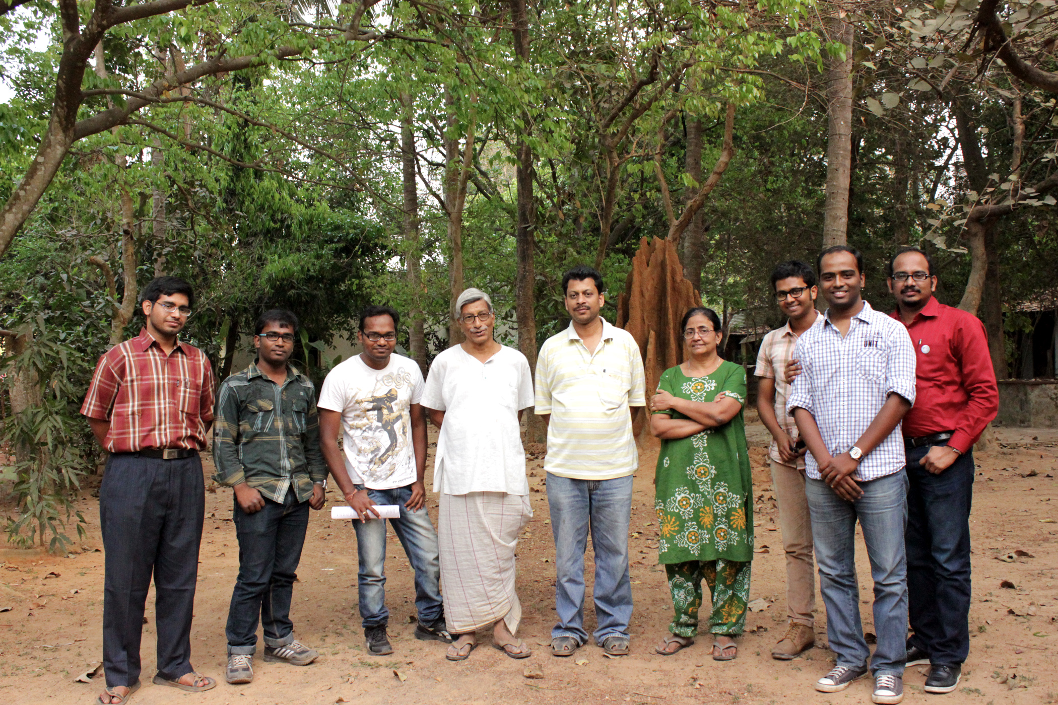 Odia Wikipedians at Srujanika campus along with Dr. Nikhil Mohan Pattnaik, co-ordinator, Srujanika Magazine